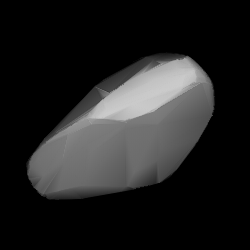 3D convex shape model of 1248 Jugurtha, computed using light curve inversion techniques. J. Hanuš, J. Ďurech, M. Brož, B. D. Warner (June 2011). "A study of asteroid pole-latitude distribution based on an extended set of shape models derived by the lightcurve inversion method". Astronomy and Astrophysics 530: A134. ISSN 0004-6361. arXiv